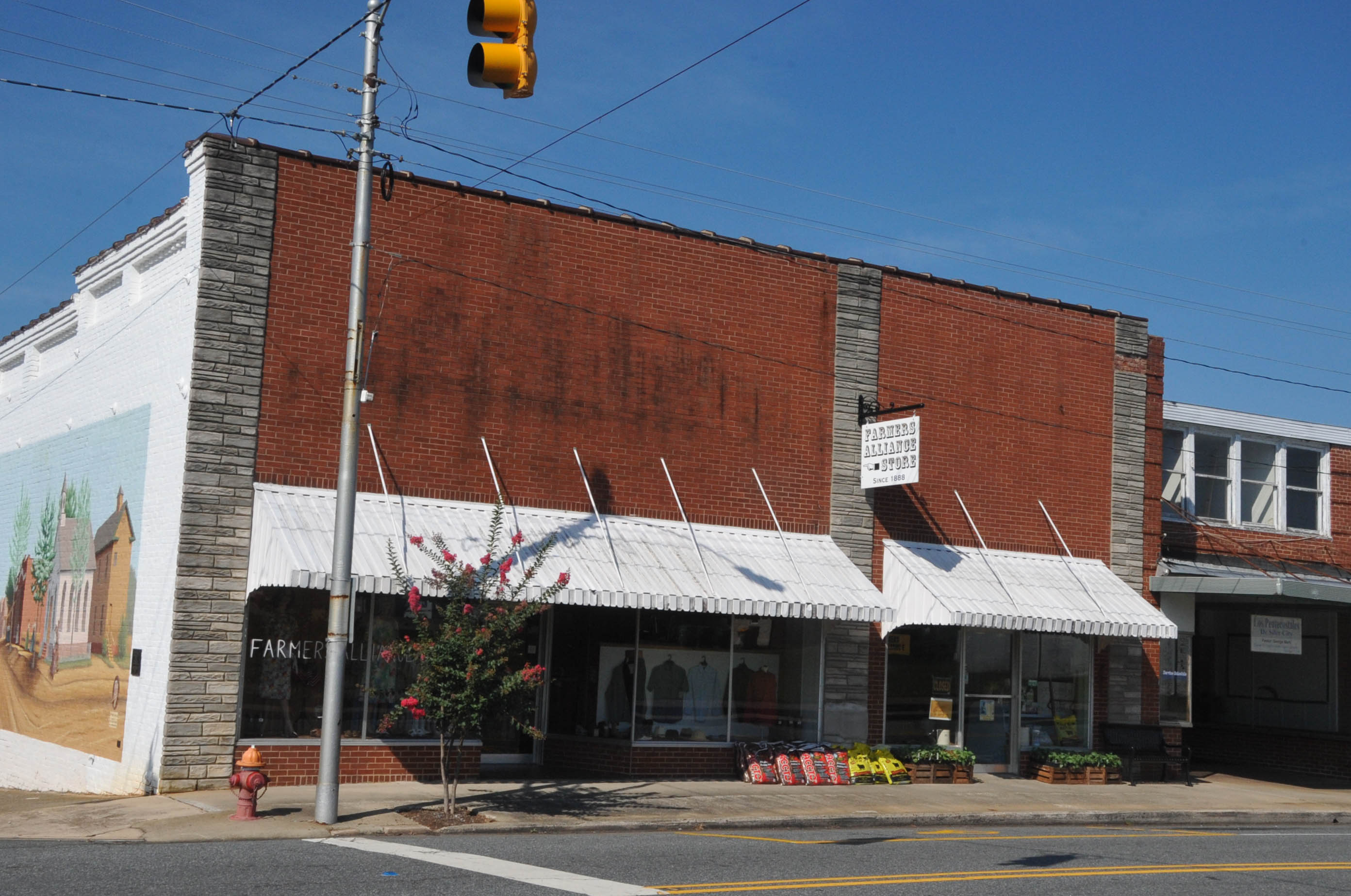 FOUNDED IN 1888 AND STILL IN BUSINESS TODAY; WORK CLOTHES, GARDEN SUPPLIES, SNACKS,. AND LOCAL NEWS ARE THEIR SPECIALITIES